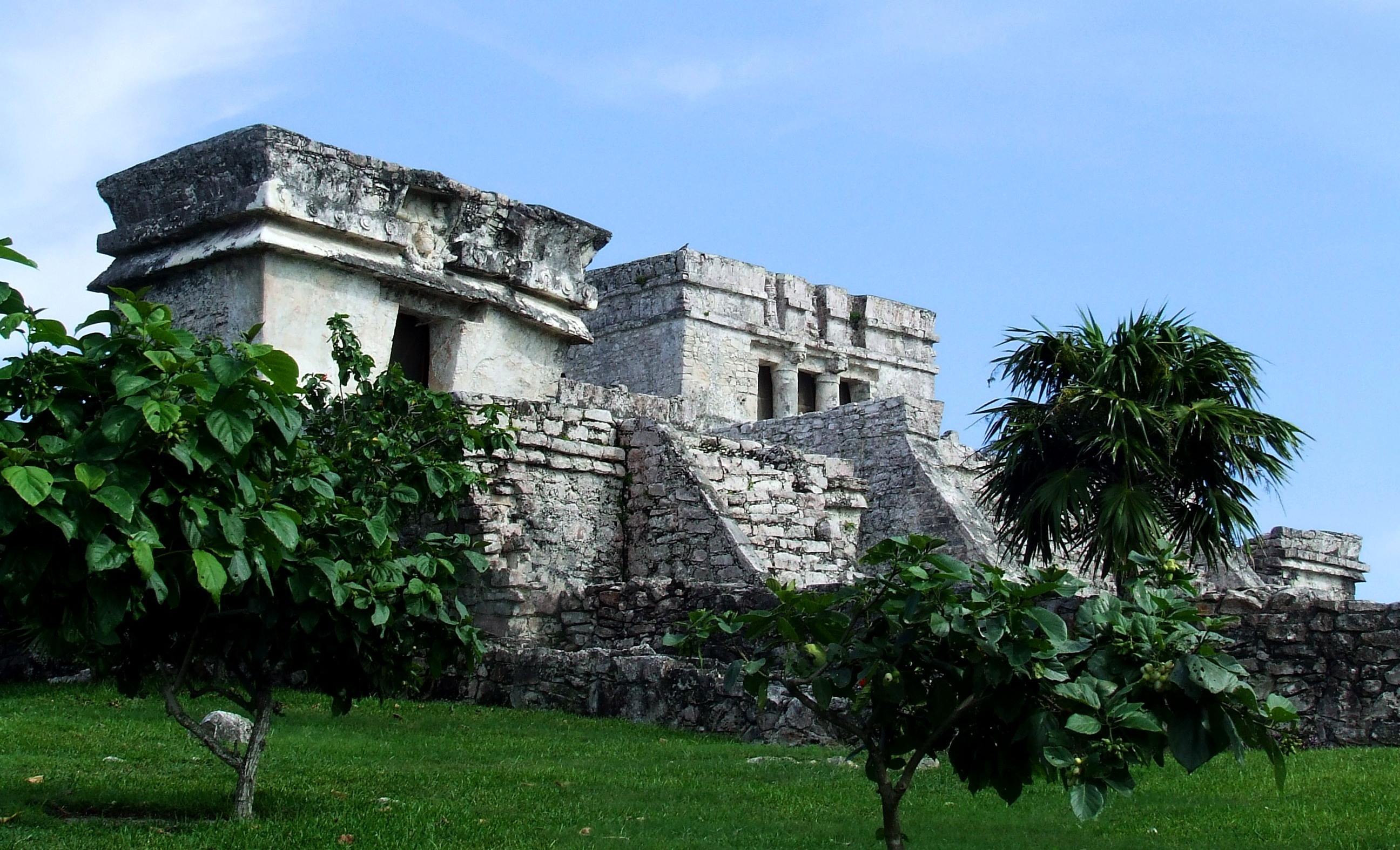 Tulum